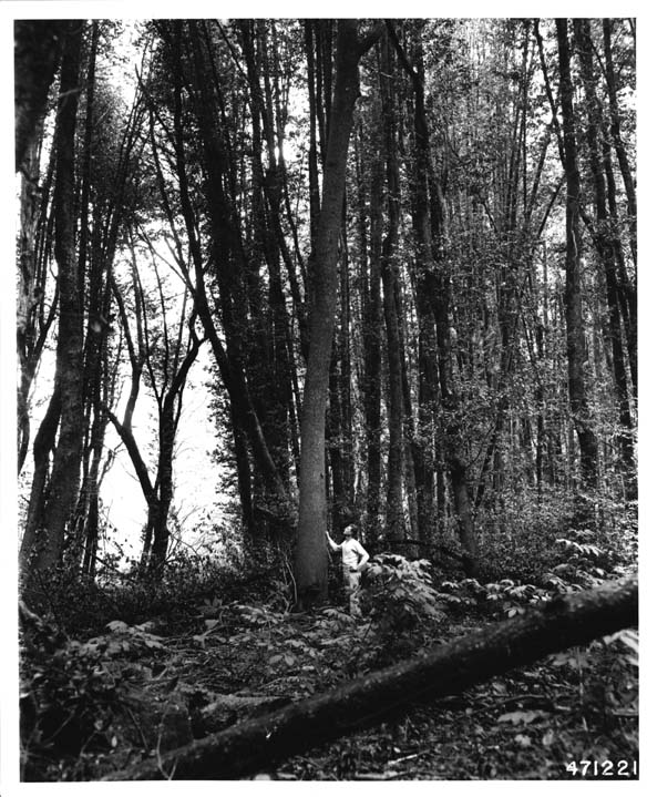 A dense stand of 80 to 90-year-old California laurel (Umbellularia Californica) near Roseburg, Oregon. One windfall measured 110 feet in length.